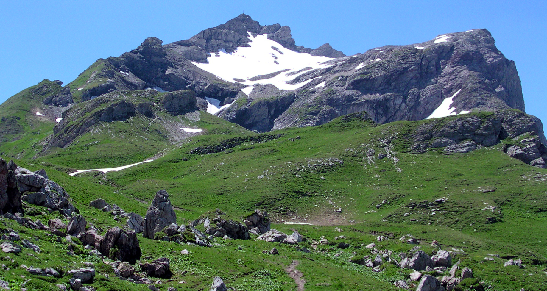 Naafkopf (Rätikon, A/CH/FL) 2571 m from North (Bettlerjoch, Pfälzerhütte)